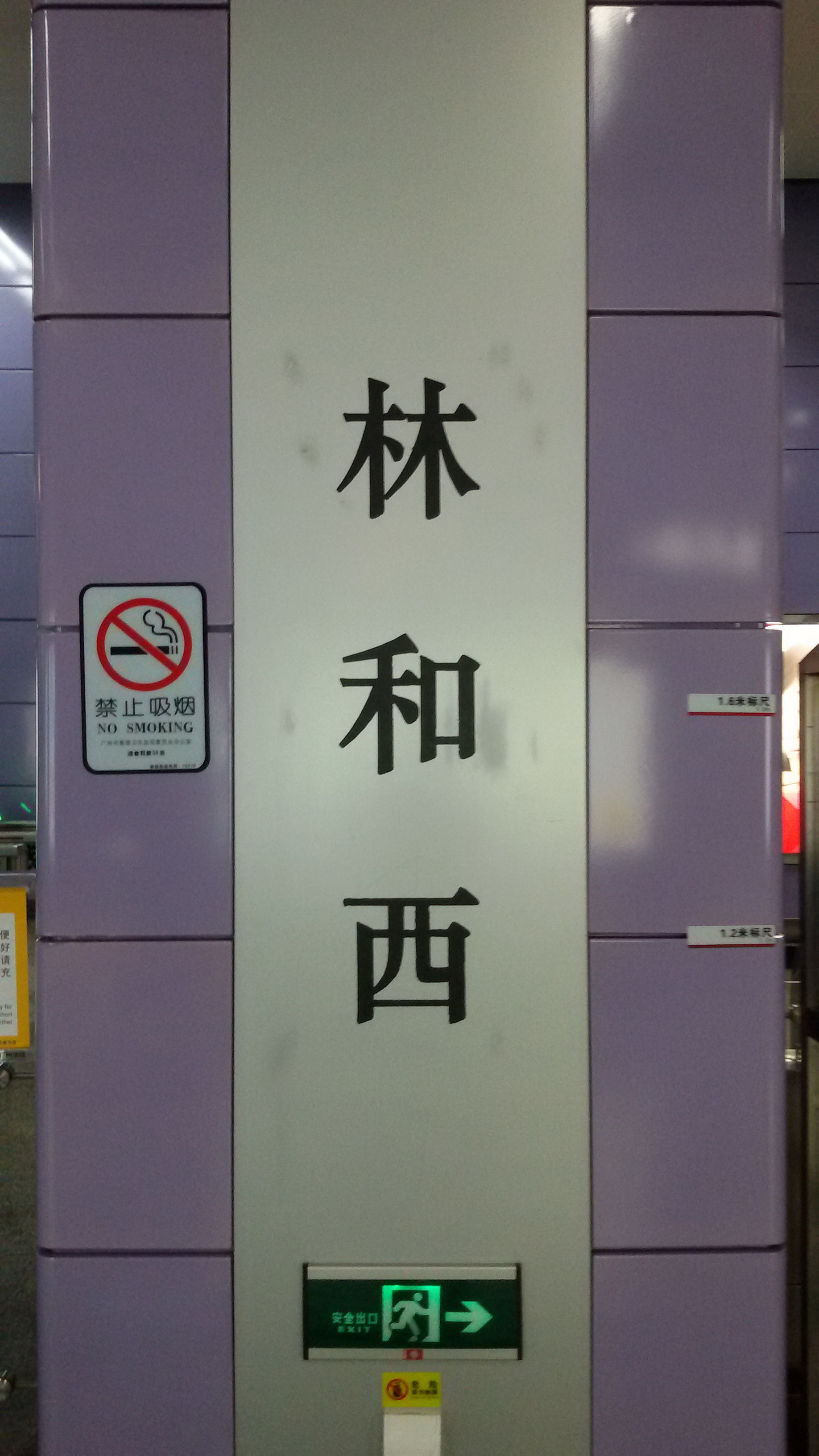 WORD ON PILLAR for Linhexi Station, Guangzhou Metro. 粵語: 林和西站嘅柱上面啲字